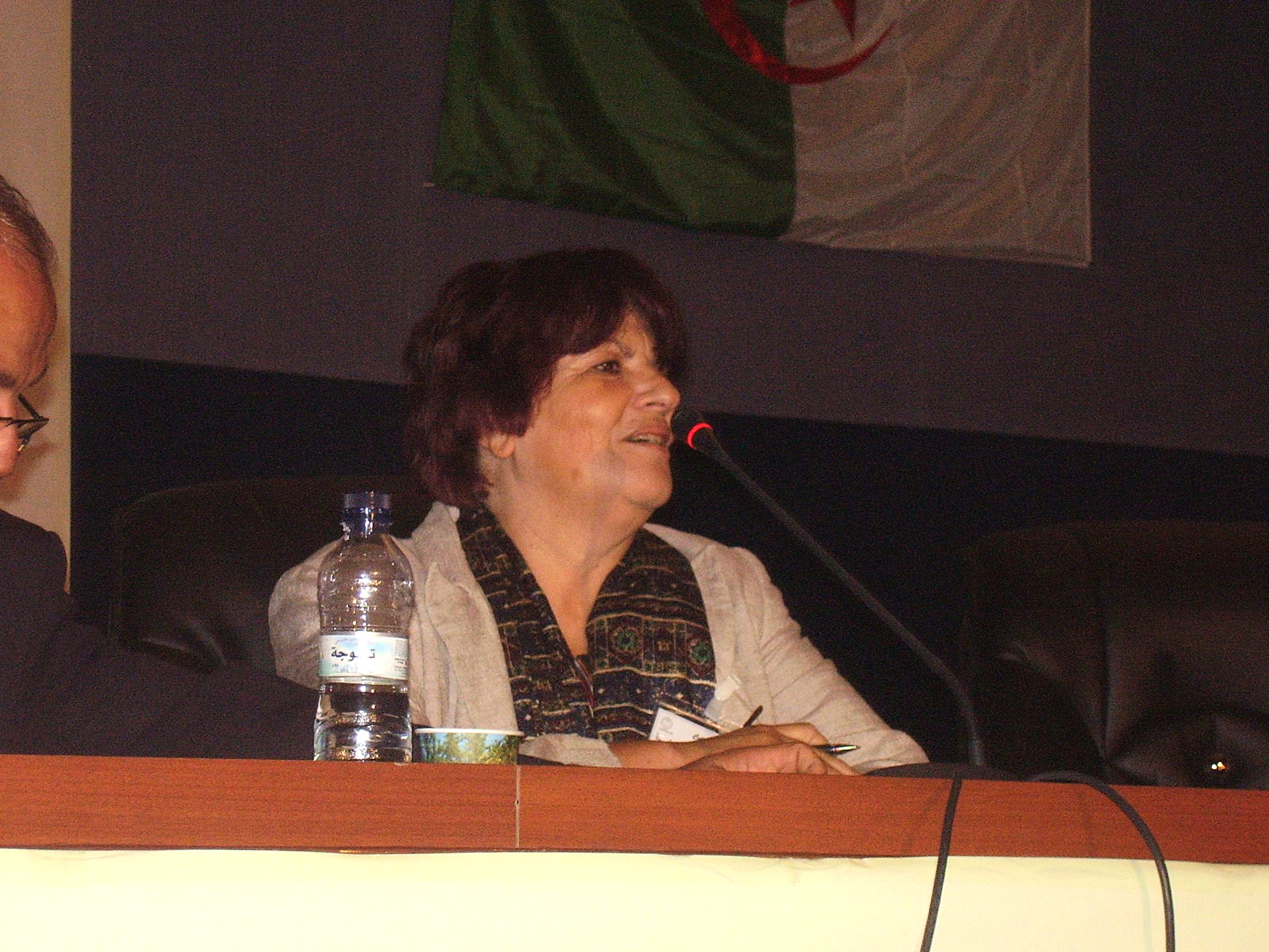 Tassadit Yacine speaking in Béjaïa (Algeria) at an international conference